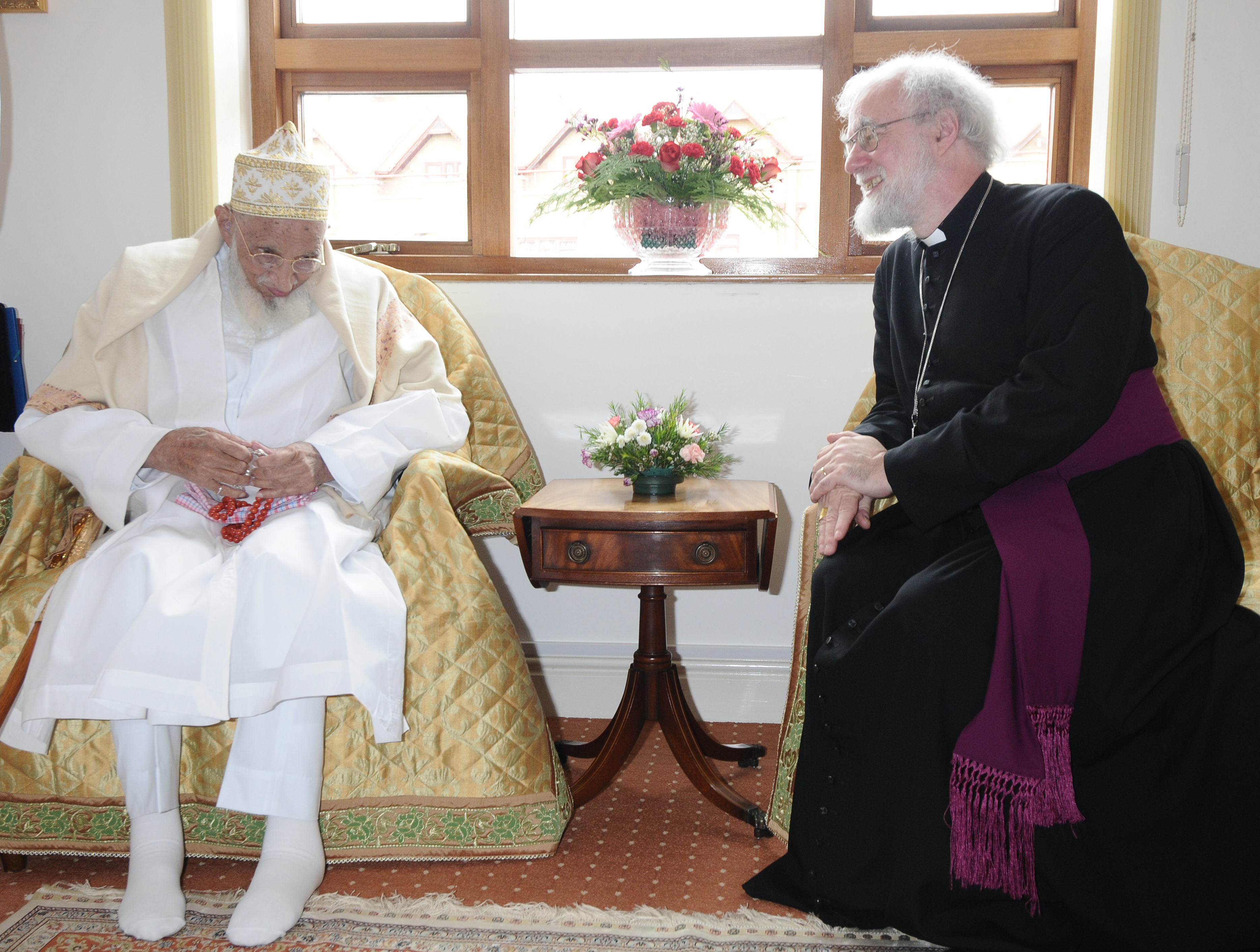 Archbishop Rowan Williams visits Syedna Mohammed Burhanuddin at the Mohammed Masjid Park Complex in London.